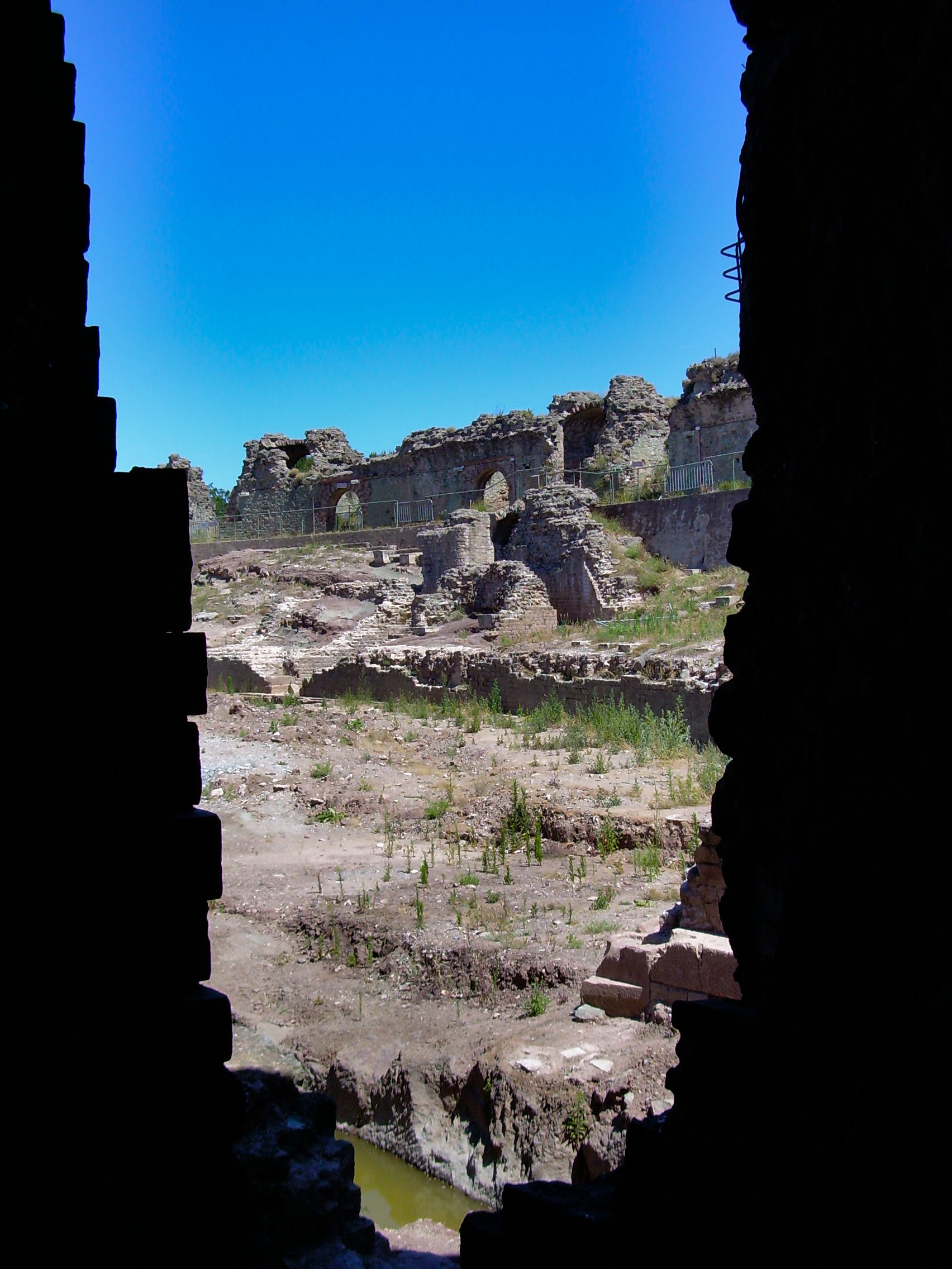 Roman amphitheatre of Fréjus or Forum Julii, Var, France